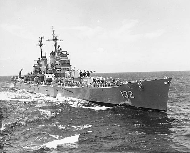 The U.S. Navy heavy cruiser USS Macon (CA-132) in the Mediterranean Sea in 1953.